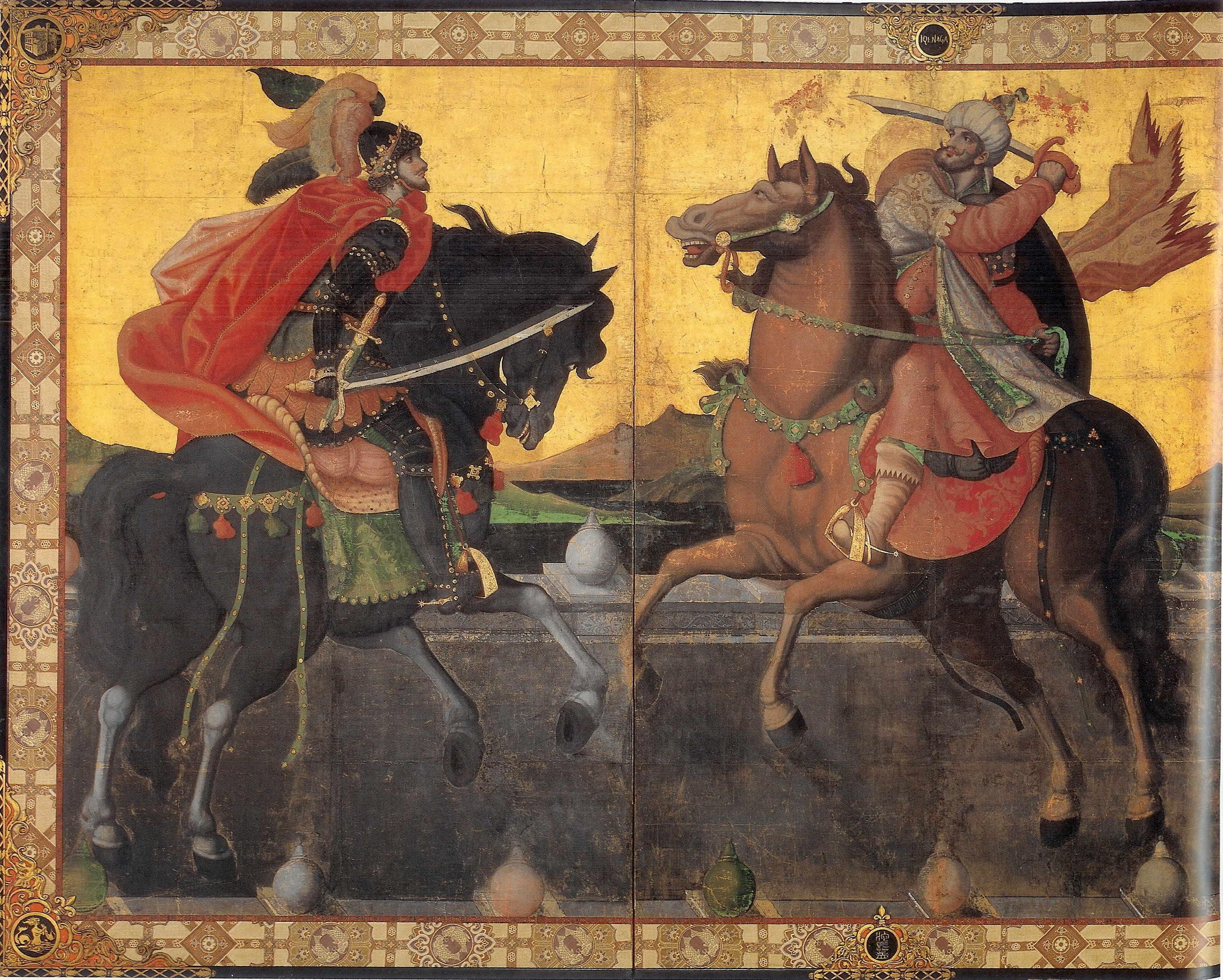 Screen with knights, detail (Kobe Museum)